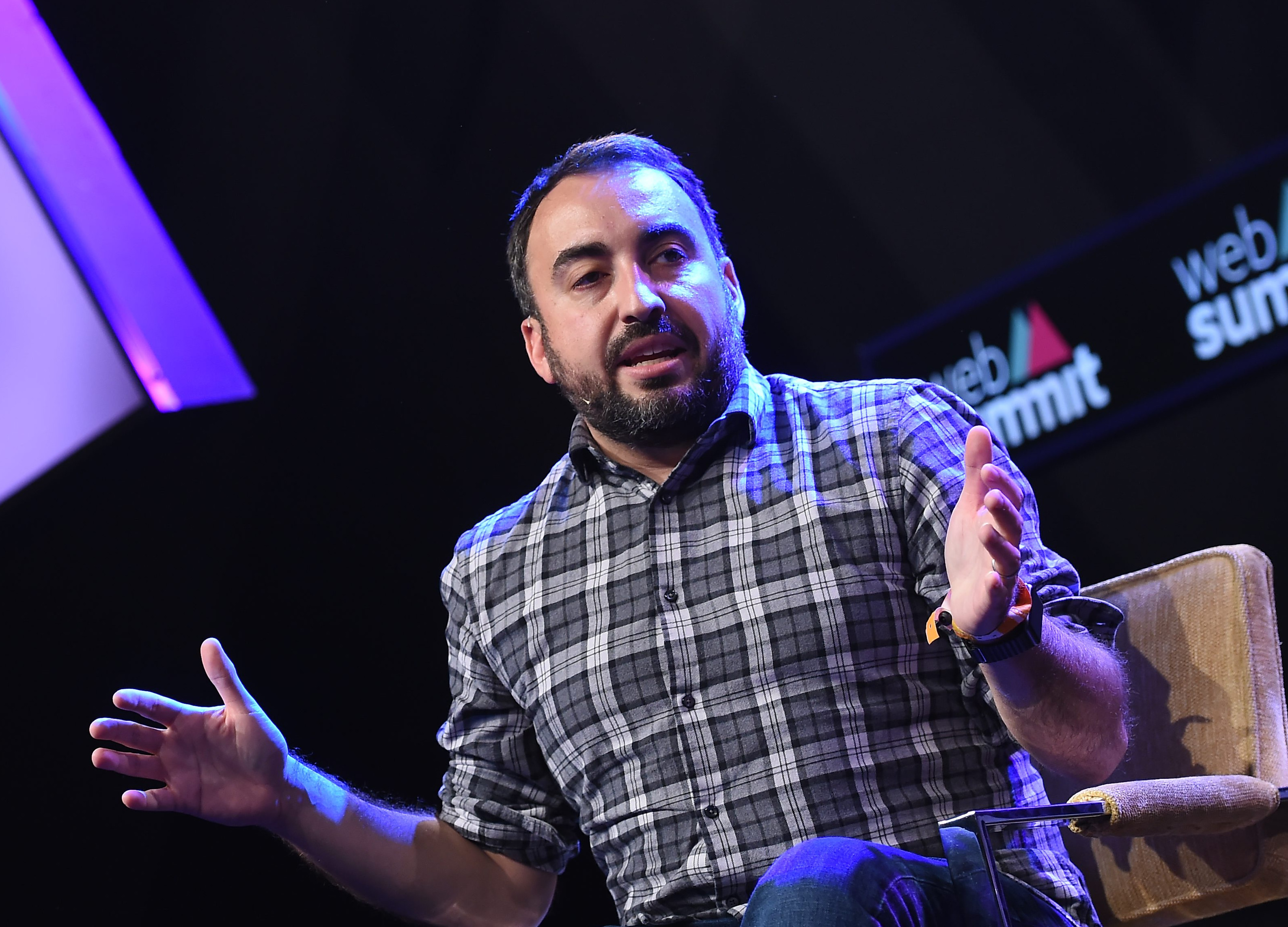 Alex Stamos speaks at Web Summit 2015 in Dublin, Ireland